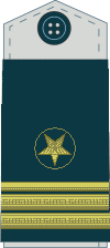 Serbian military ranks and insignia